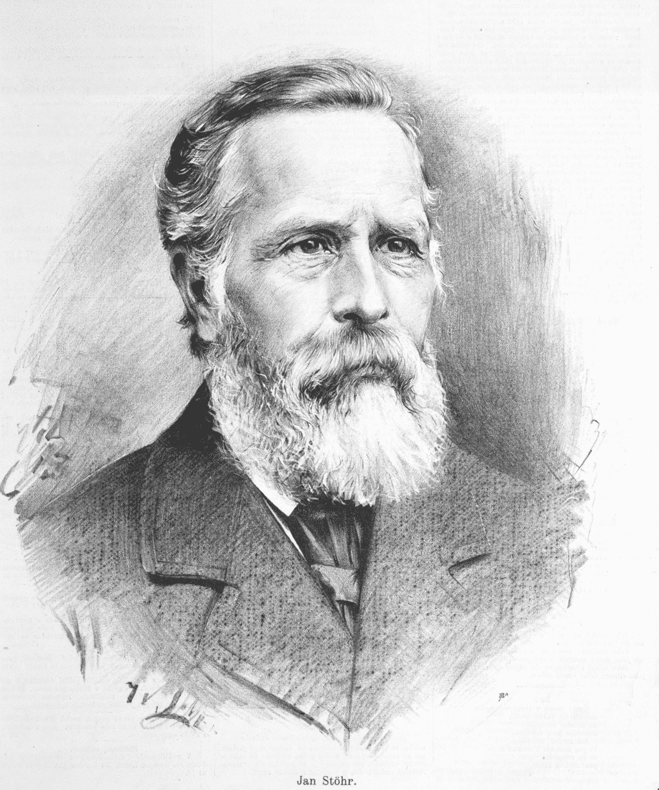 Jan Stöhr